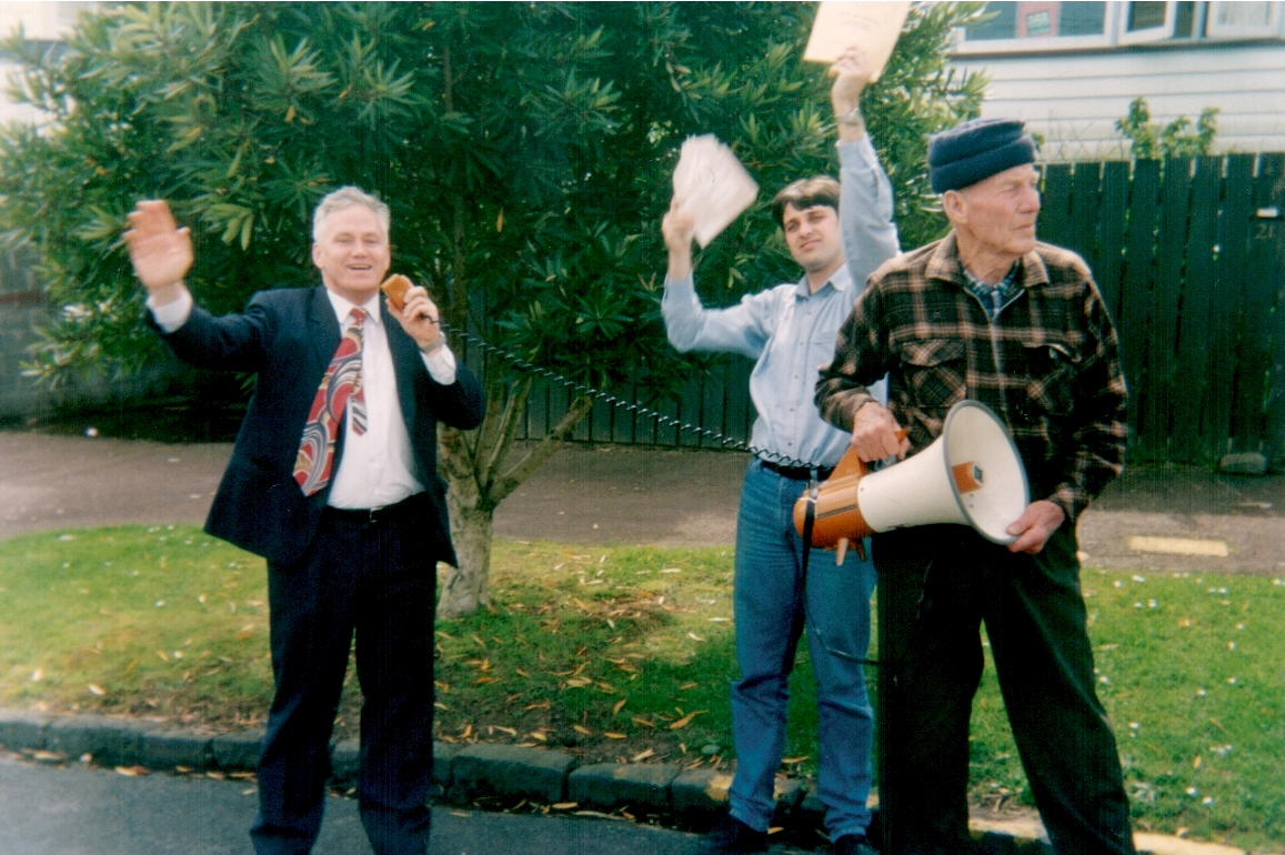 Richard Prebble on election trail in Grey Lynn, Auckland 1993.